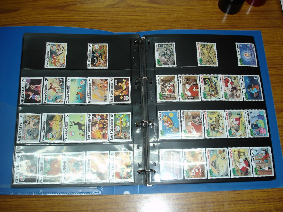 Photo of the inside of a stamp album folder containing mint Disney stamps from the West Indies